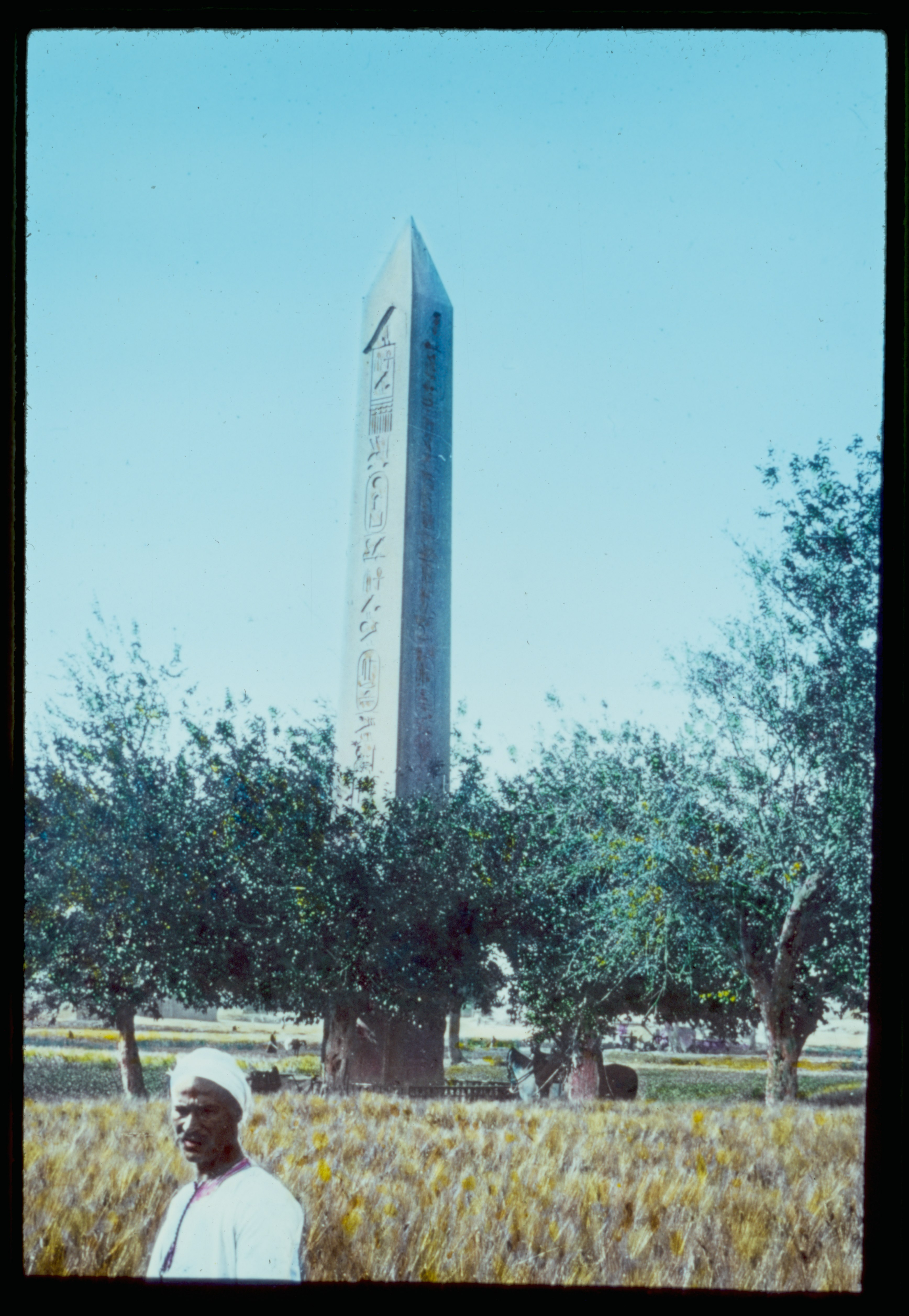 Title: Egypt. Cairo. Obelisk at Heliopolis Abstract/medium: G. Eric and Edith Matson Photograph Collection Physical description: 1 slide